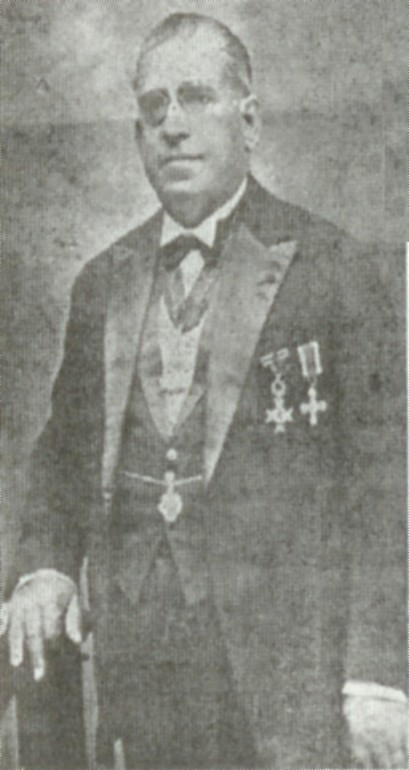 José Vieira Goulart, a 19th century Azorean philanthropist.